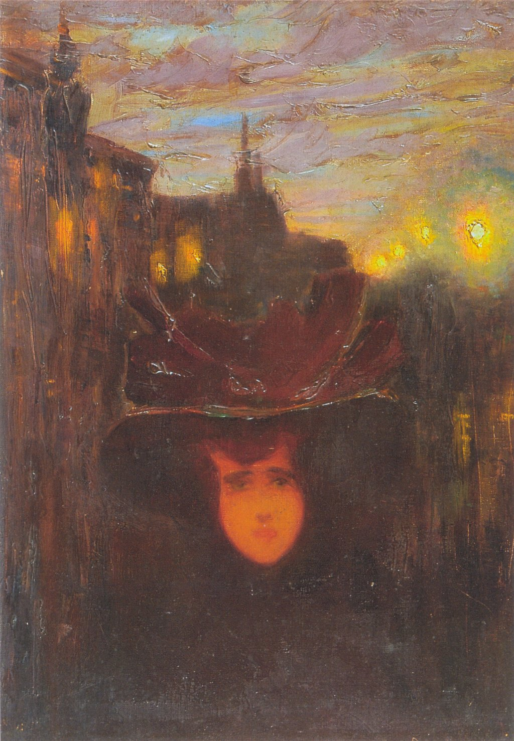 Nocny ptak (en: Night owl)